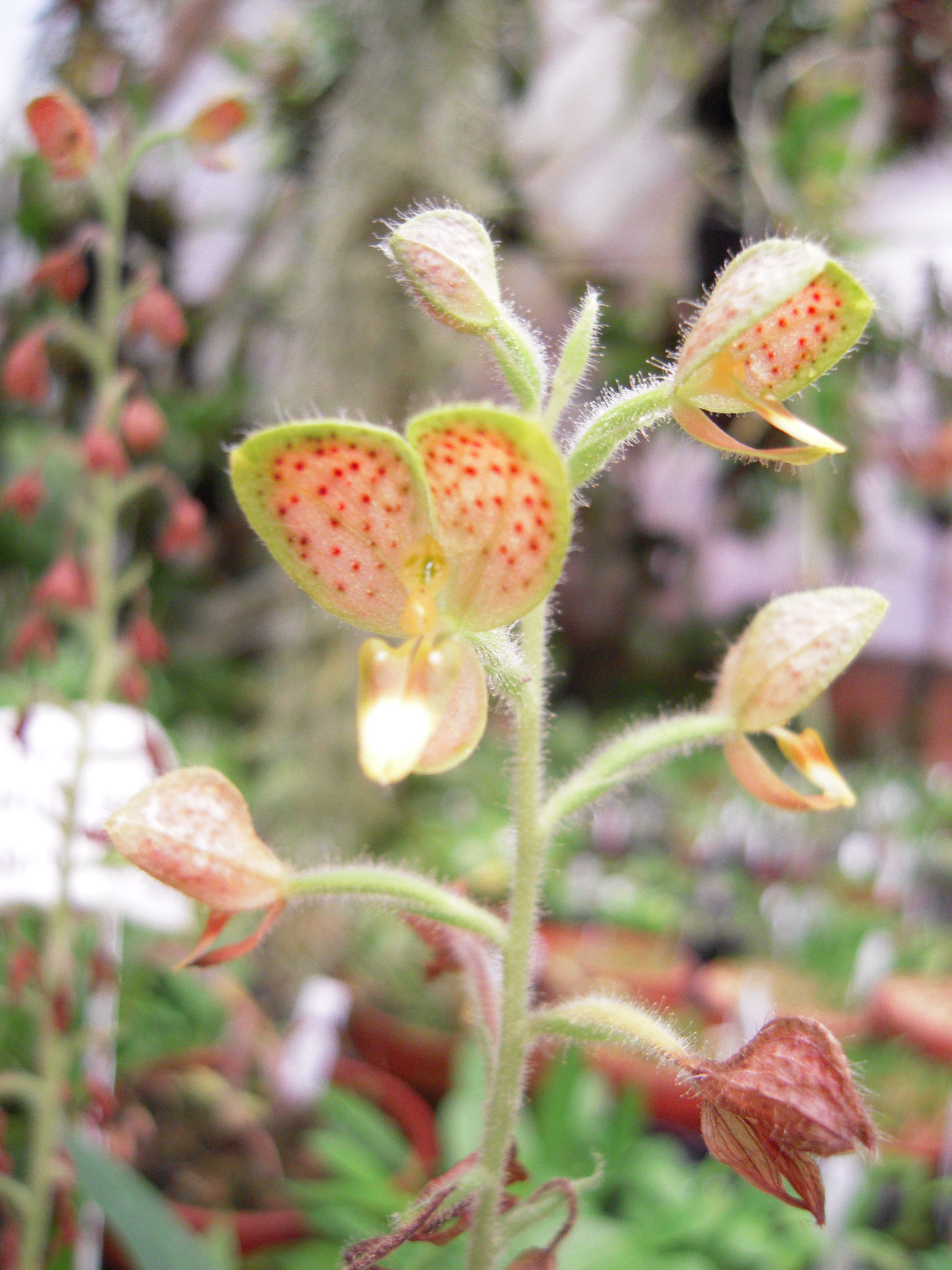 Ponthieva tunguraguae, taken at J&L Orchids CT.